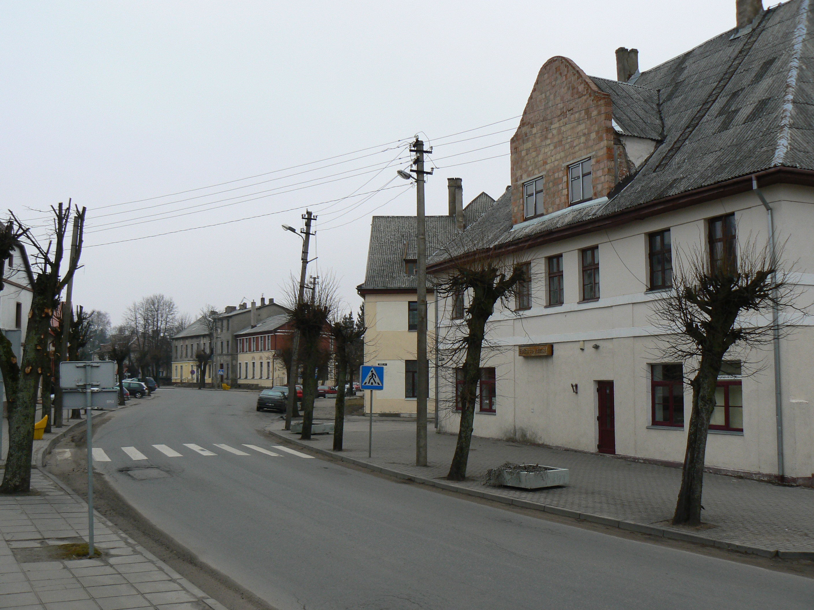 Klaipėdos street in Priekulė